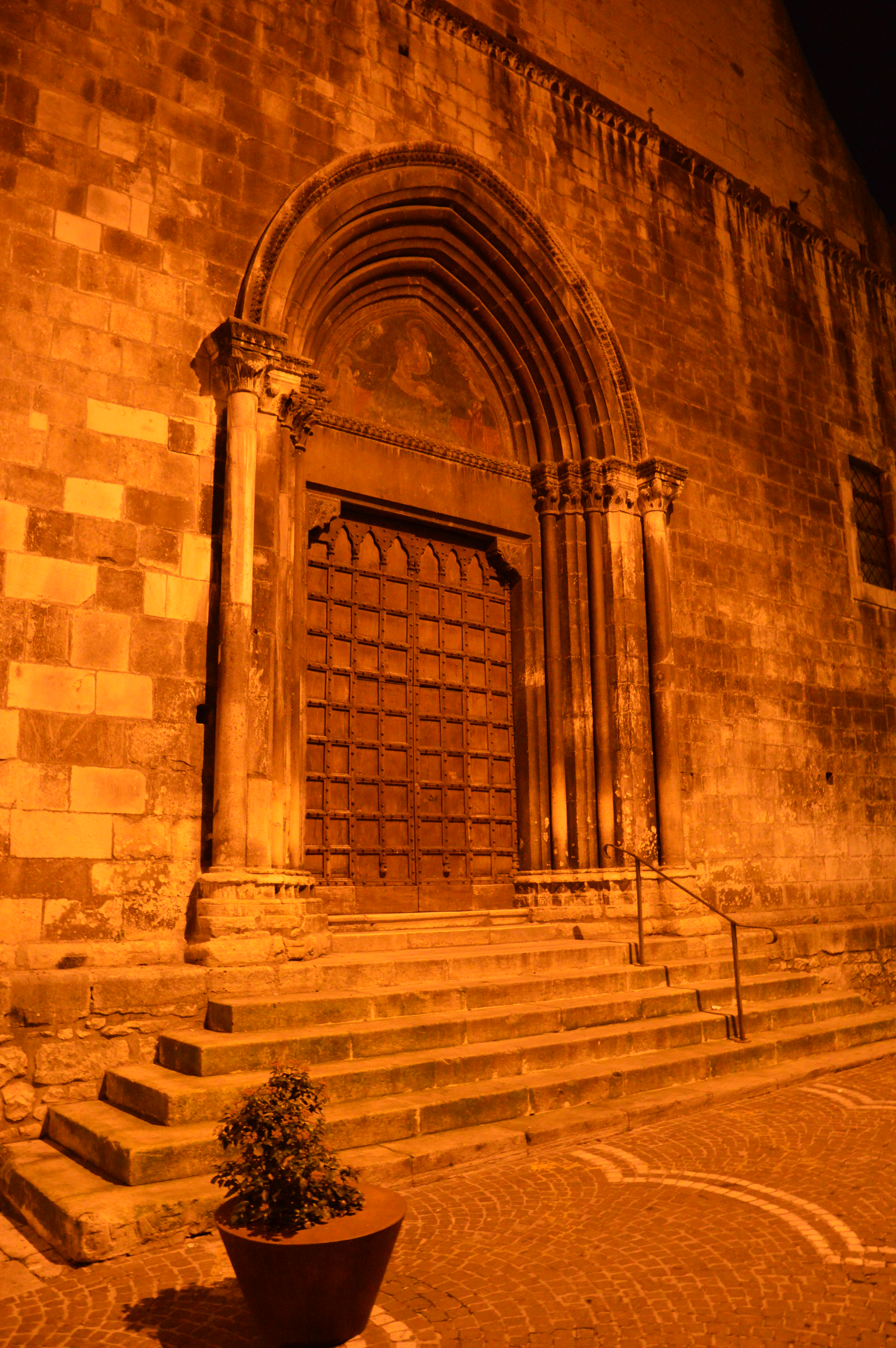 San Francesco della Scarpa Church